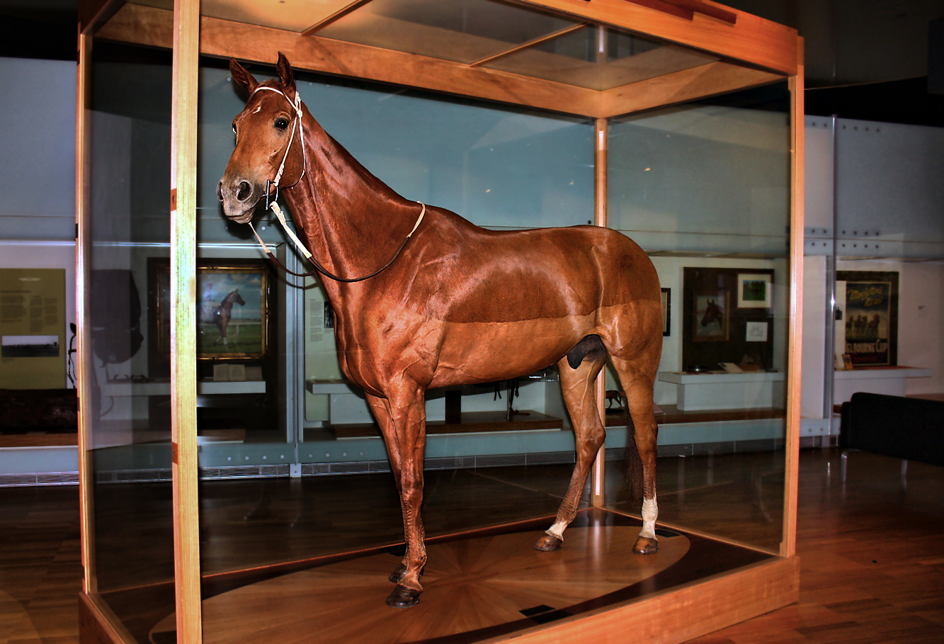 Phar Lap (4 October 1926 - 5 April 1932) was a champion Thoroughbred racehorse whose achievements captured the public's imagination during the early years of the Great Depression. After being mounted, he now lives at the Melbourne Museum.